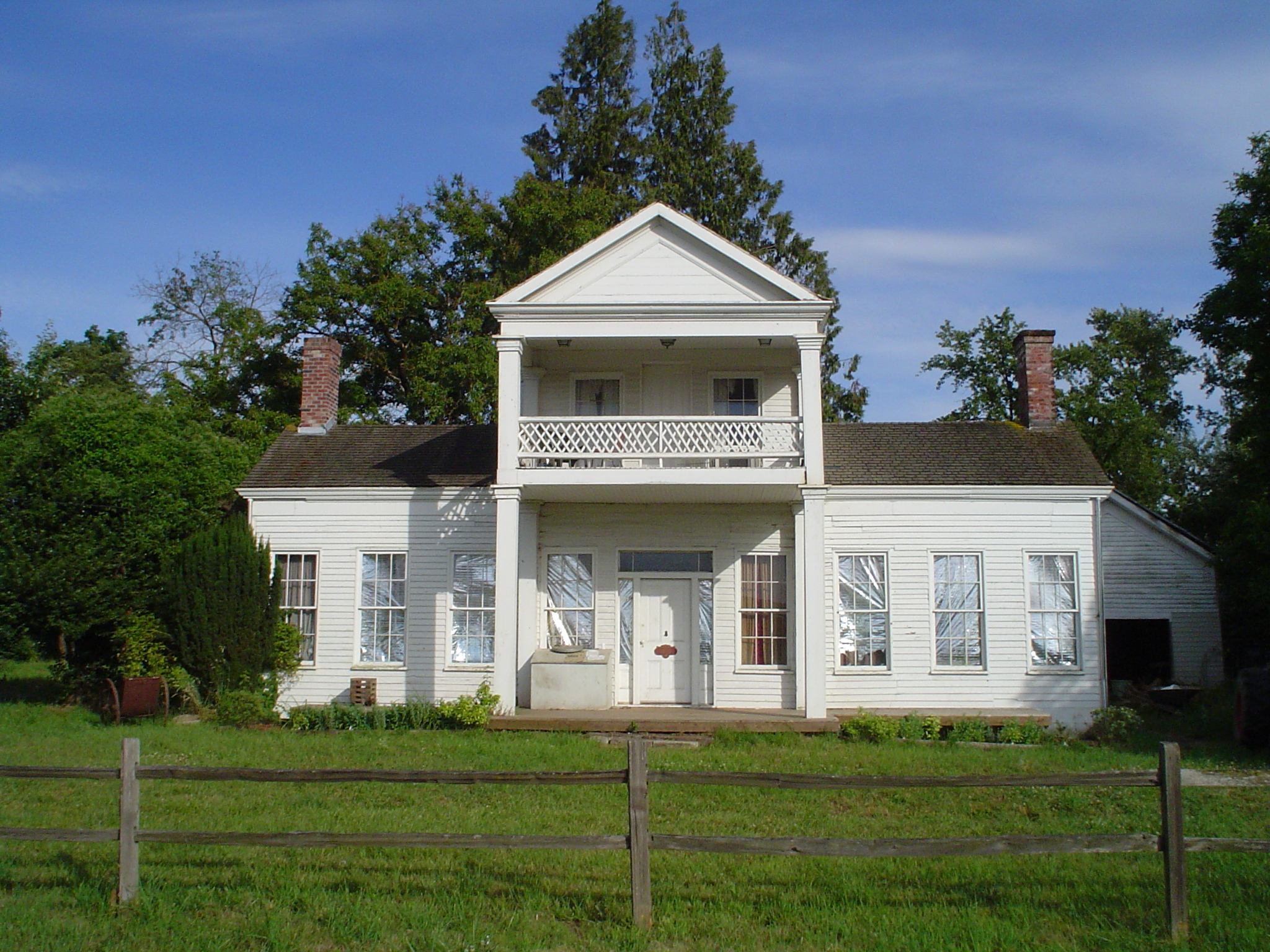 Sam Brown House in Gervais, Oregon. If you redistribute this image anywhere else please list me as the original photographer. Thank you.